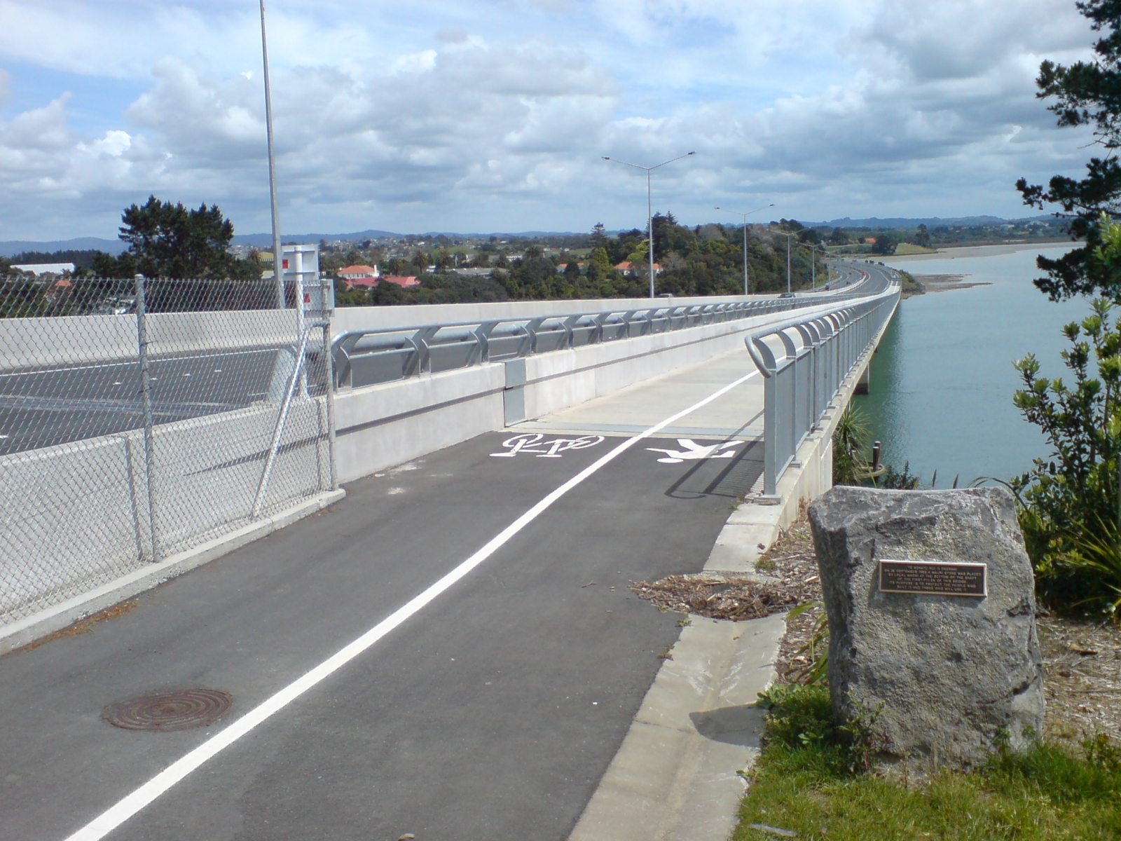 New Zealand State Highway 16, The memorial stones near the eastern end of Greenhithe Bridge, North Shore City, New Zealand.